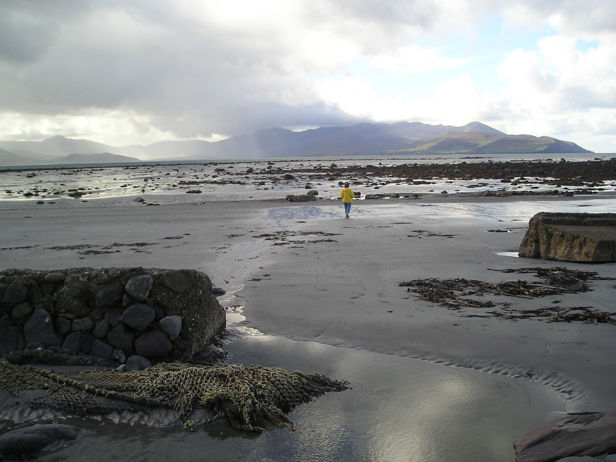 Tralee Bay before and after the storm